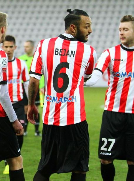 KS Cracovia, Poland